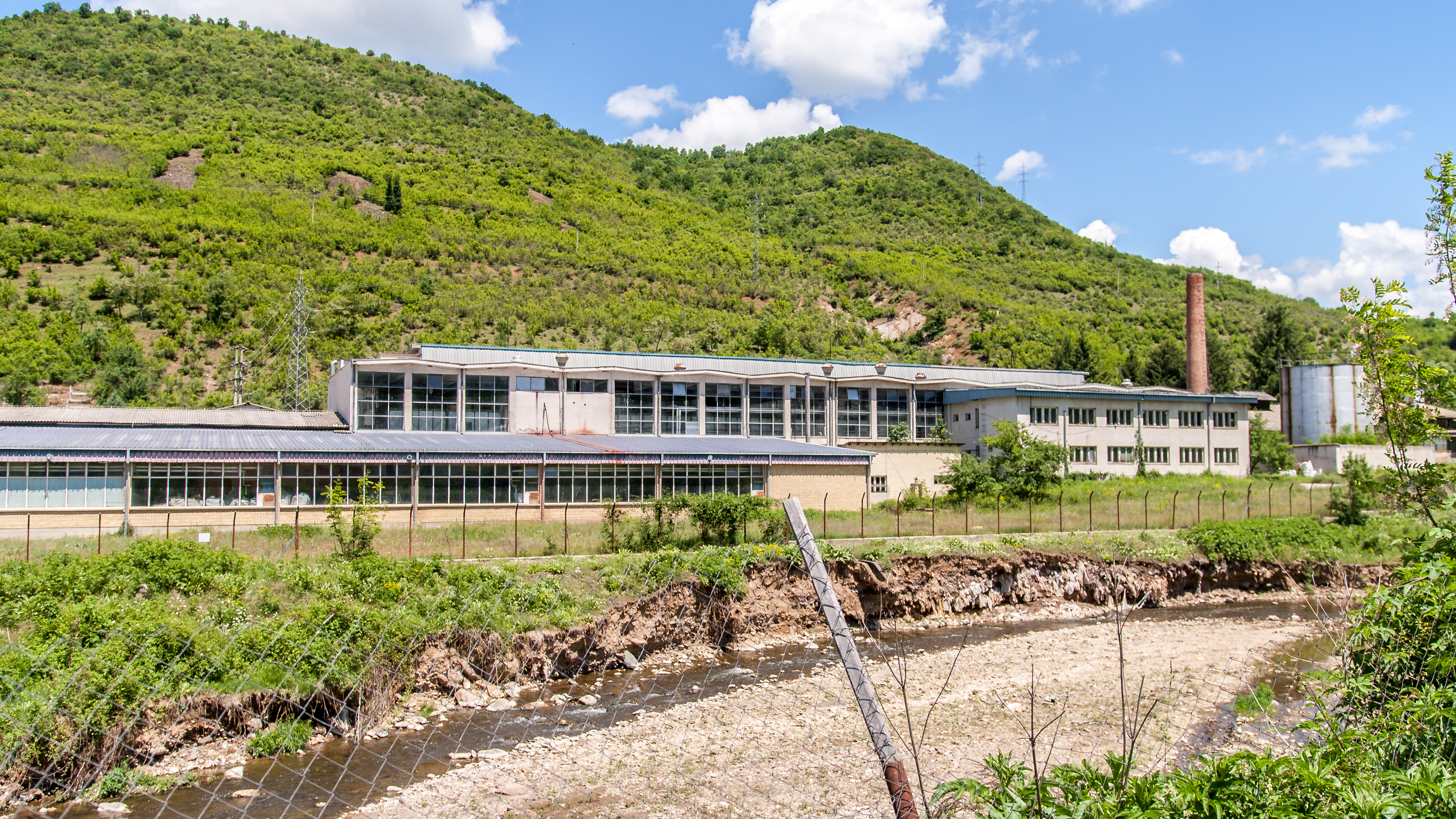 Kratovo River outside of the town Kratovo